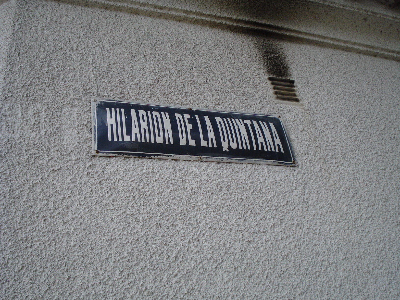 Hilarión de la Quintana street in Florida, Vicente López, Argentina.